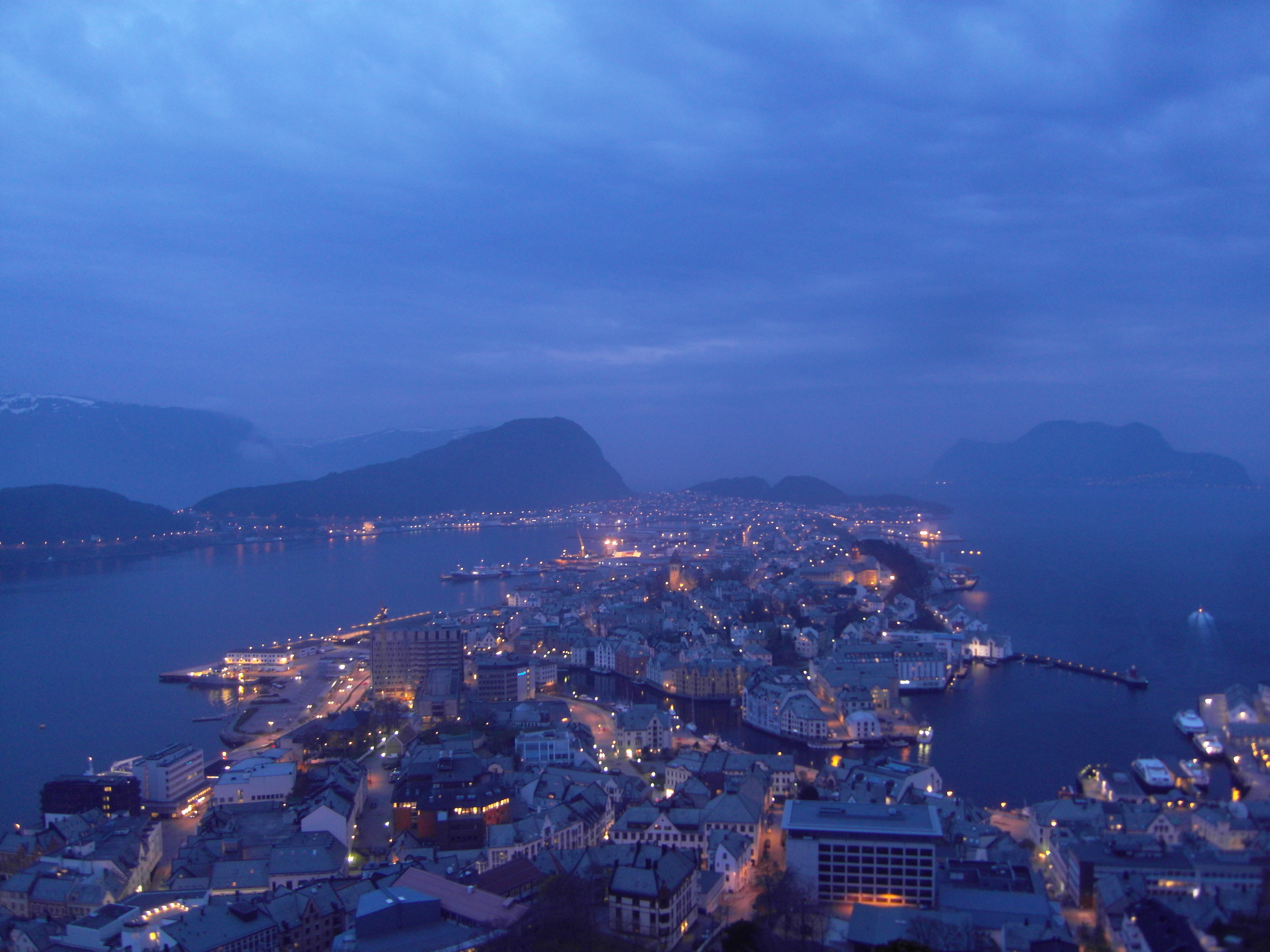 Alesund Panorama